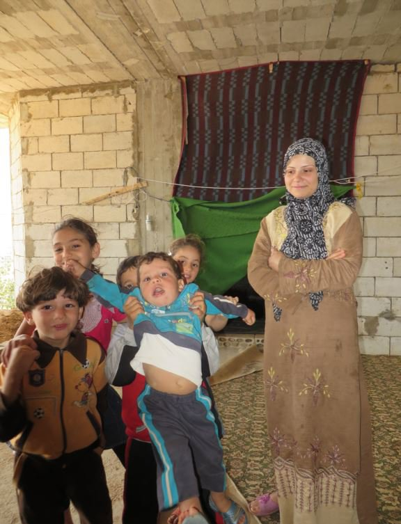 This family fled their home in Damascus last month and say they would rather live here in Lebanon, with no windows or doors to protect them from the wind than risk their lives in Syria, Bekaa Valley, Lebanon, Sept. 4, 2013.